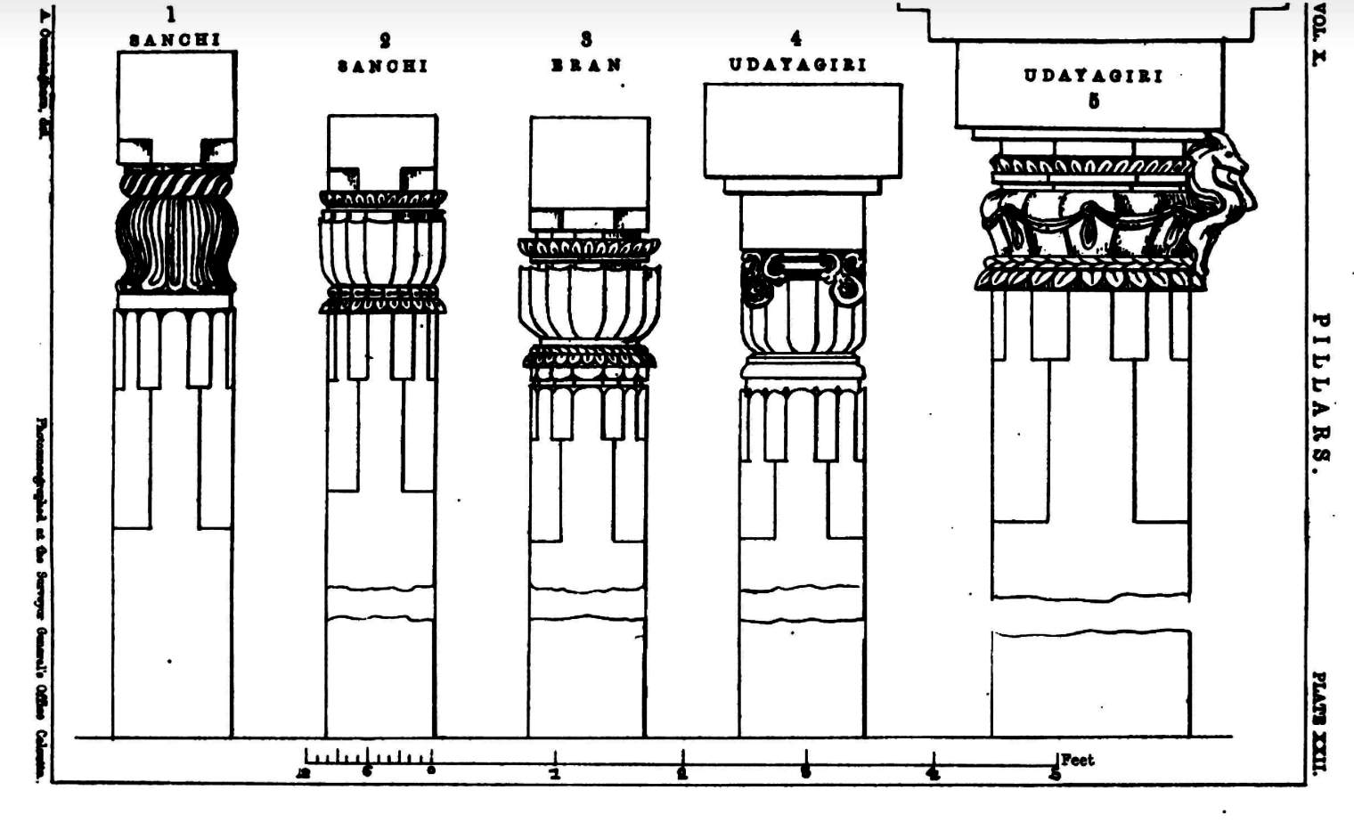 The Udayagiri Caves are twenty rock-cut caves near Vidisha, Madhya Pradesh from the early years of the 5th century CE. 19 of them are Hindu cave temples, 1 is a Jaina cave temple, both co-located. These contain some of the oldest surviving Hindu temples and iconography in India, as well some of early inscriptions. The iconography includes those for Vishnu, Devi, Shiva along with other Vedic and Puranic deities. The reliefs narrate Hindu religious legends as well show secular scenes such as daily life, lovers and meditating people. These images are photographs from the appendix of a book published in 1880 by Alexander Cunningham for the Archaeological Survey of India, Volume 10 (personal copy). The photographed plates are XVI through XIX. The link below is provided for easier verification of the publication date and PD-Art-100-70 category confirmation.